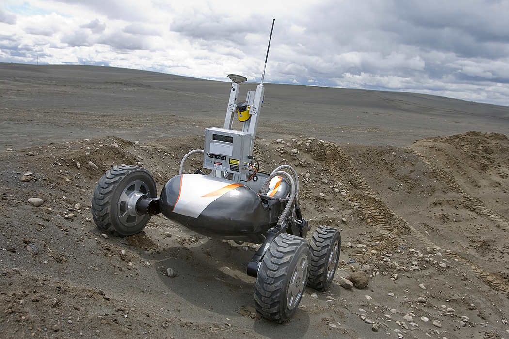 NASA's Autonomous Drilling Rover undergoes testing at Moses Lake, Washington. Developed by Glenn Research Center and Carnegie Mellon University's Robotics Institute, it demonstrated autonomous dark navigation using light detection and ranging systems.